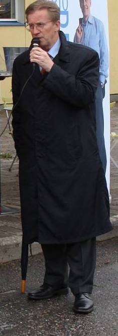 Finnish politician of Social Democratic Party of Finland Kalevi Olin Heinola